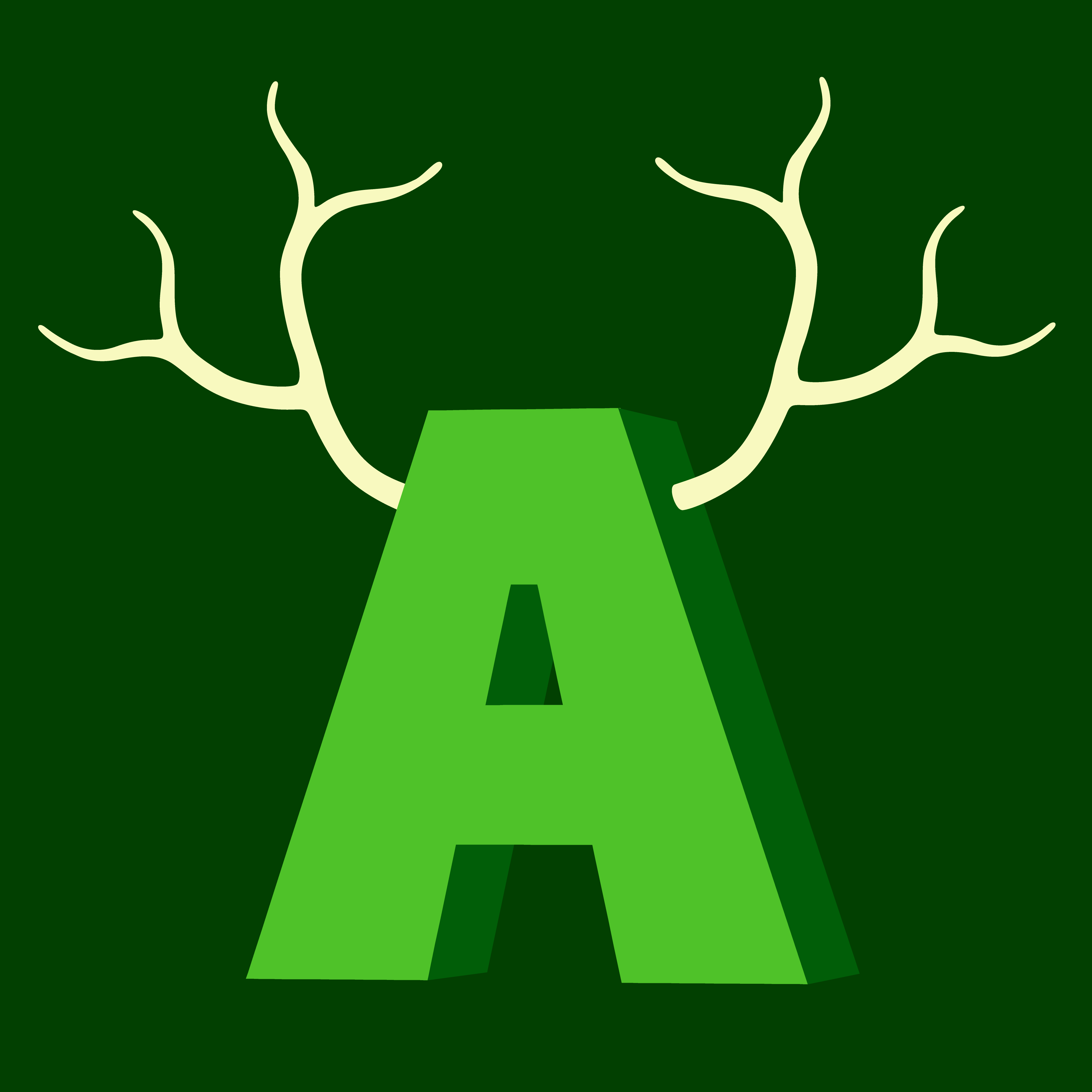 Metamorphabet app icon